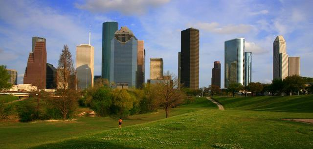 Photograph of the skyline of Downtown Houston, Texas